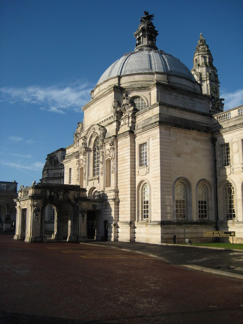 Cardiff City Hall Cardiff City Hall was designed the firm of Lanchester, Stewart and Rickards, who had won the architectural competition for this prestigious commission. With a budget of £125,000, construction was begun by the local firm of E. Turner and Sons in 1900, and was completed in 1904. Information from Link The Welsh dragon on top of the dome was sculpted by HC Fehr.